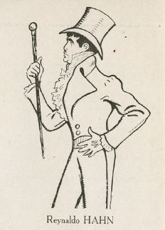 Cartoon of Reynaldo Hahn by Rip (Georges Gabriel Thenon, 1884-1941).